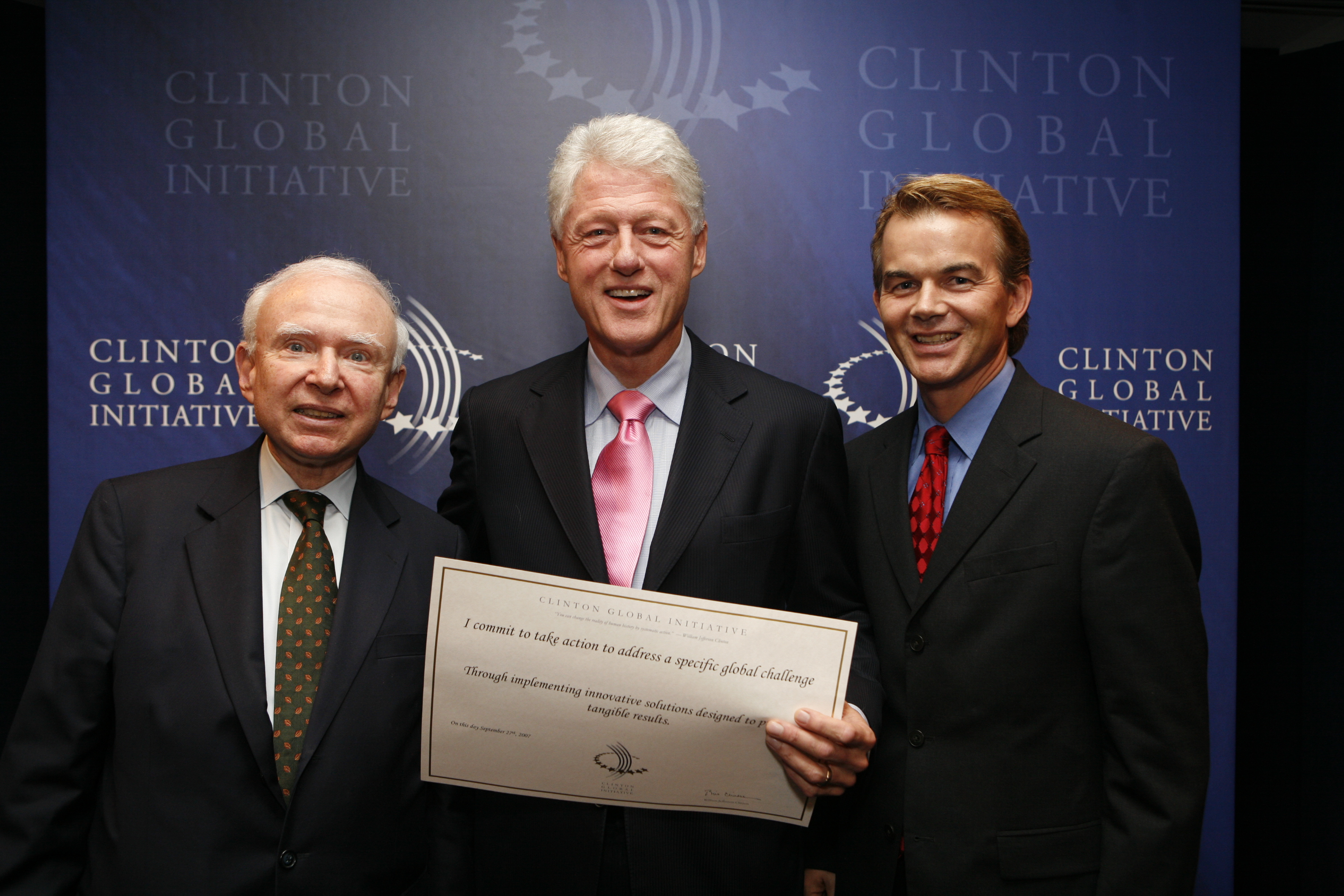 Roy Prosterman, Bill Clinton, and Tim Hanstad pose at the 2007 Clinton Global Initiative